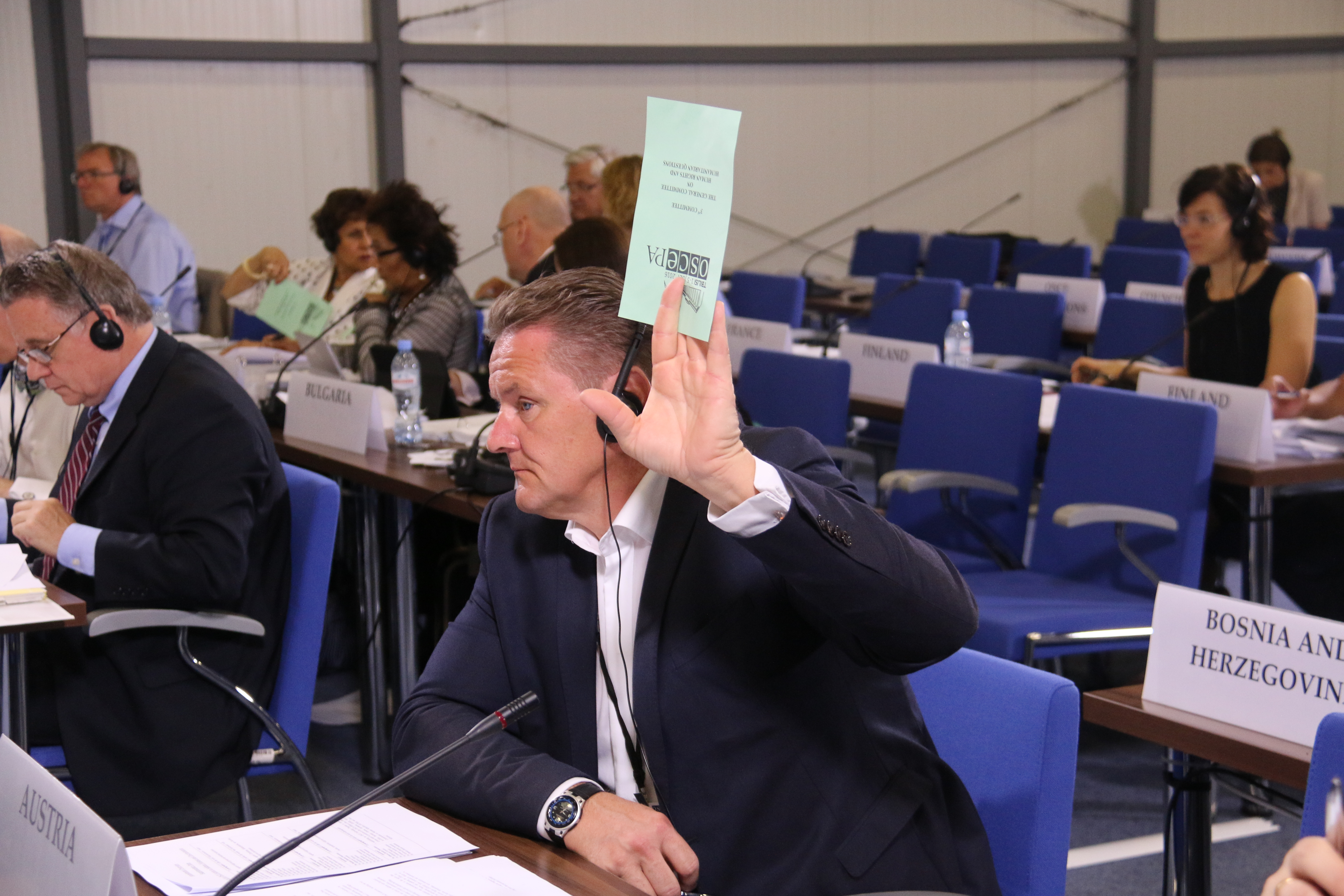 Roman Haider